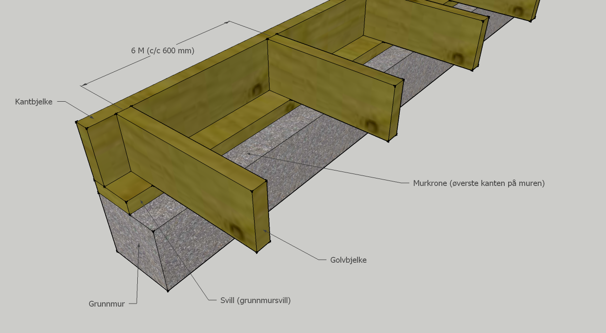 Bjelkelaget